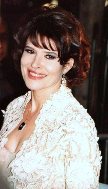 Fanny Ardant, French actress